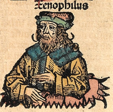 Ancient Greek philosopher Xenophilus, depicted in the Nuremberg Chronicle